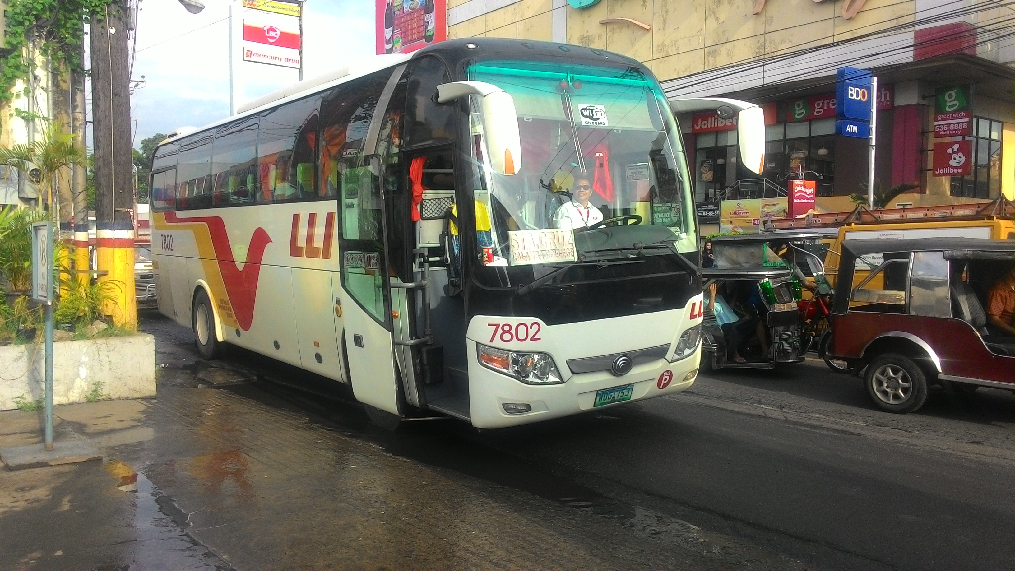 A LLI Bus Co. bus heading to Sta. Cruz. This used to be under Laguna Express Inc.